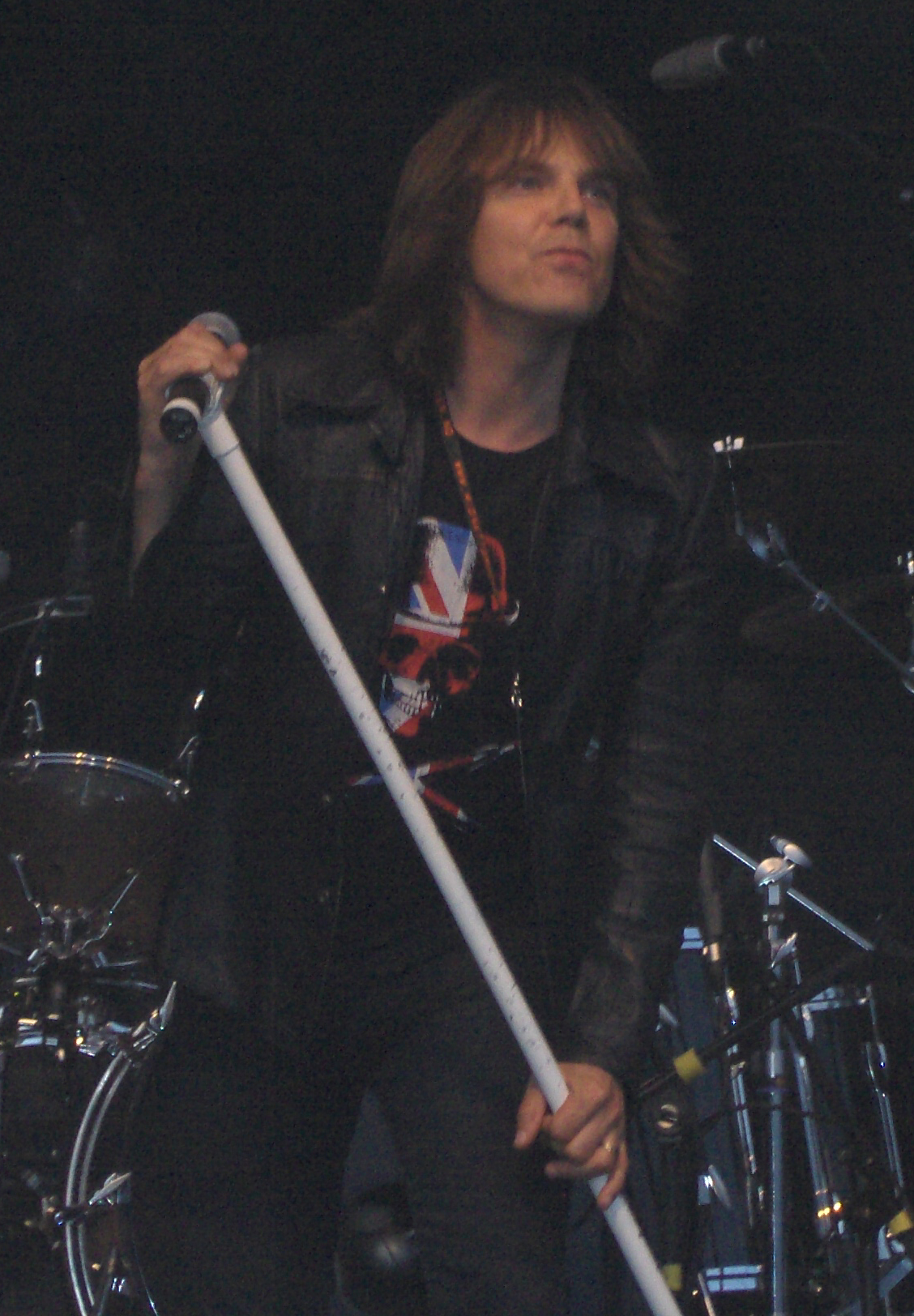 Joey Tempest, vocalist in the Swedish rock band Europe, on stage in Lakselv, Norway on July 13, 2008.